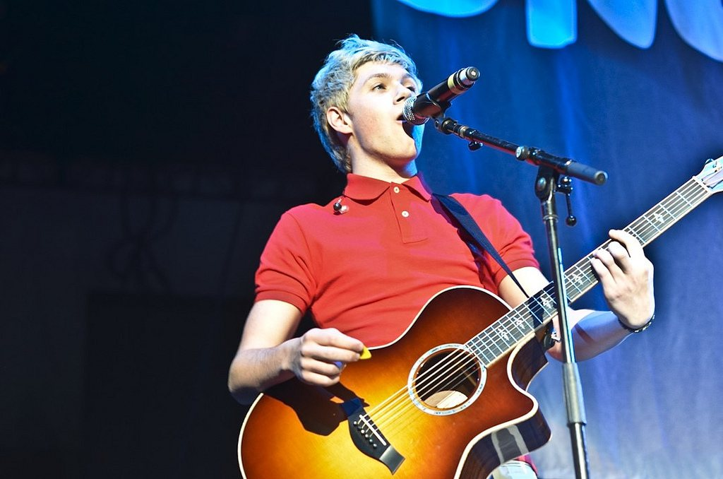 Niall y victoria of One Direction, Boston, Massachusetts, March 3, 2012